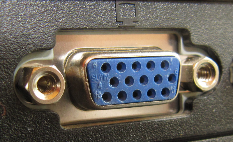 VGA-Jack